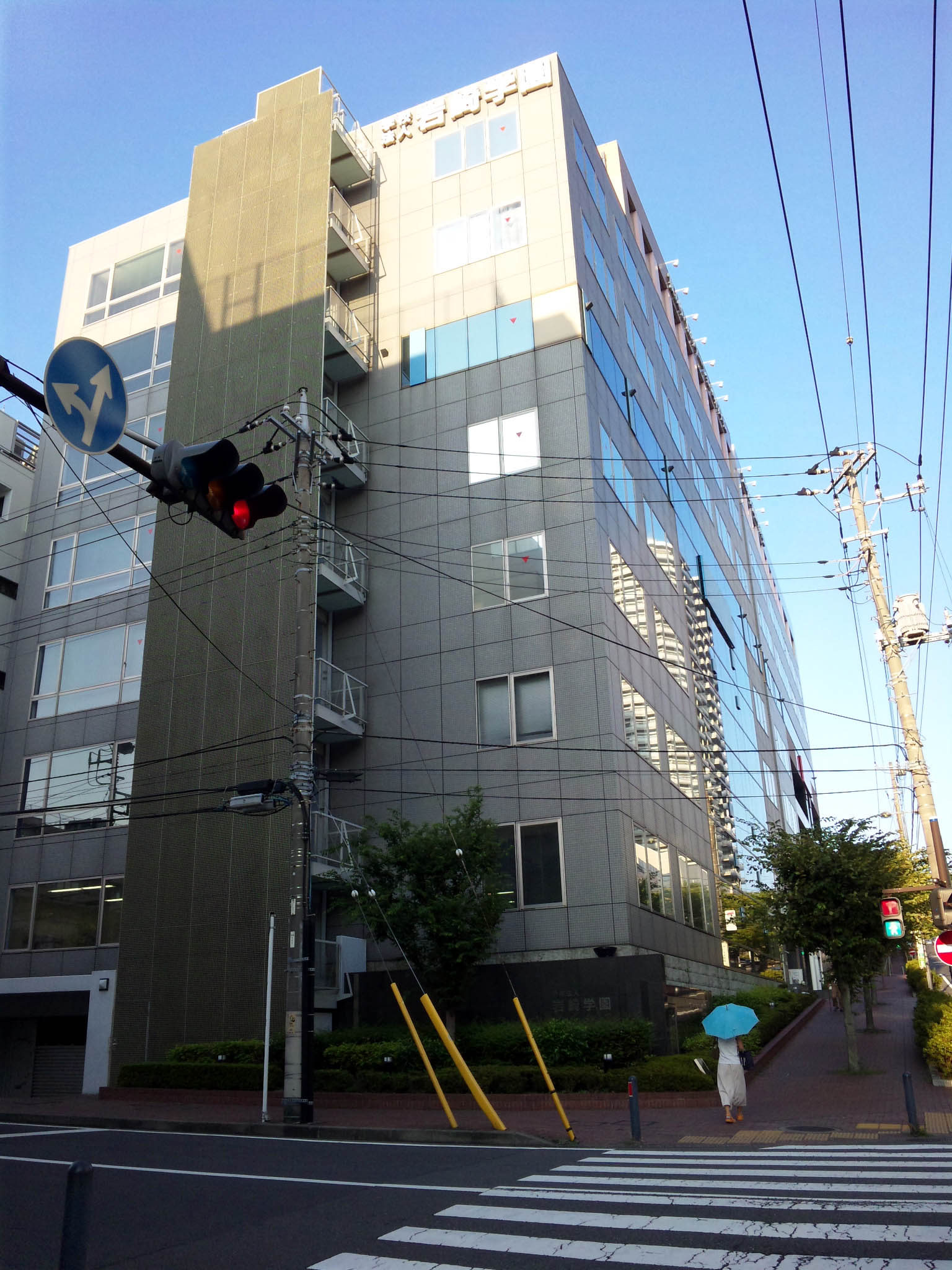 Iwasakigakuen rihabiritation